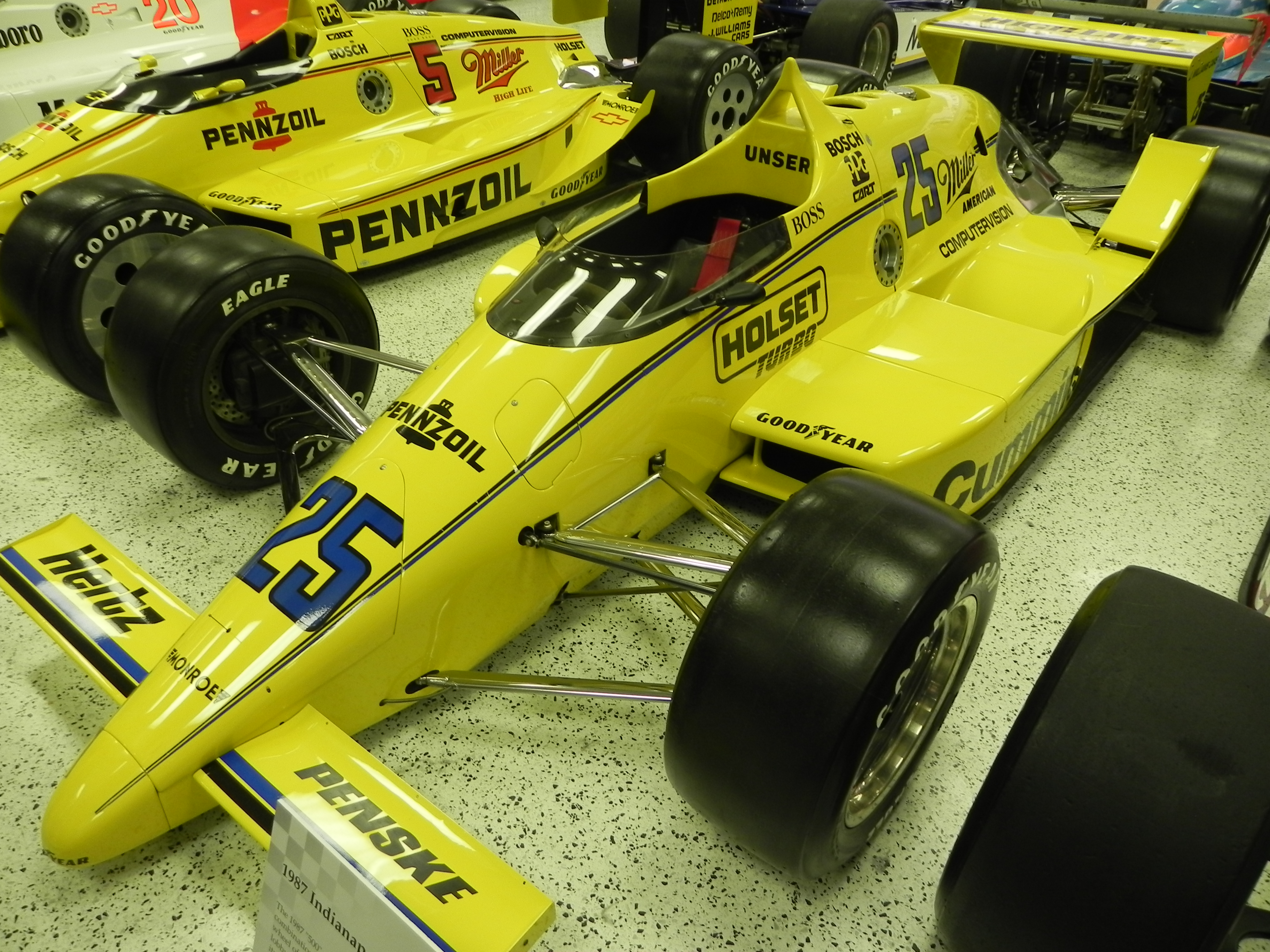 Image of the winning car of the 1987 Indianapolis 500 (Al Unser, Sr.). Photo was taken at the Indianapolis Motor Speedway Hall of Fame Museum, during the month of May 2011, at the 100th Anniversary "Ultimate Indianapolis 500 Winning Car Collection."